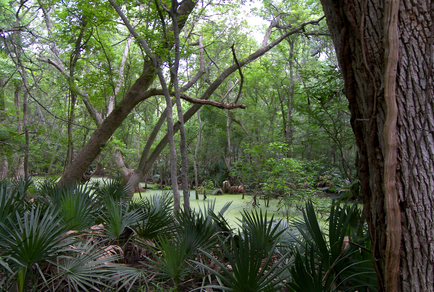 A bog surrounded by dwarf palmettos (Sabal minor) at Palmetto State Park between Luling, Texas and Gonzales, Texas, United States.